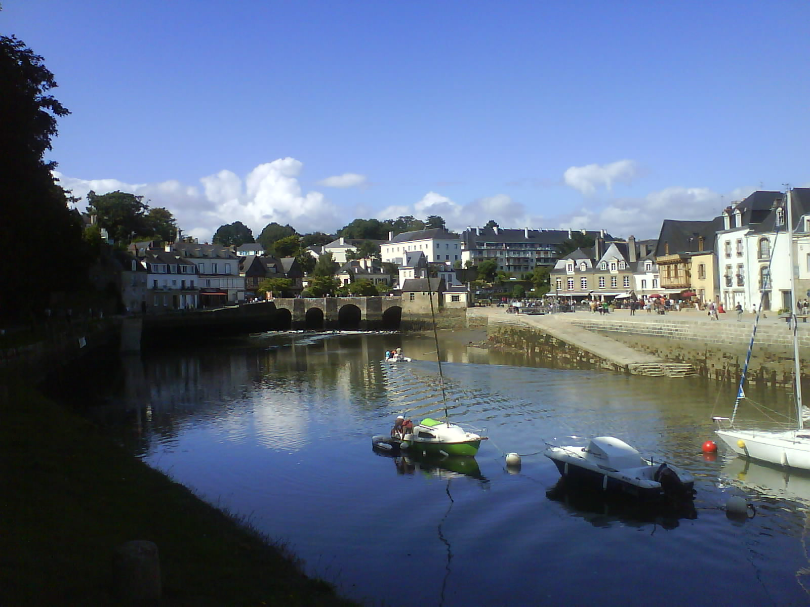 Port of Auray (France, Brittany))